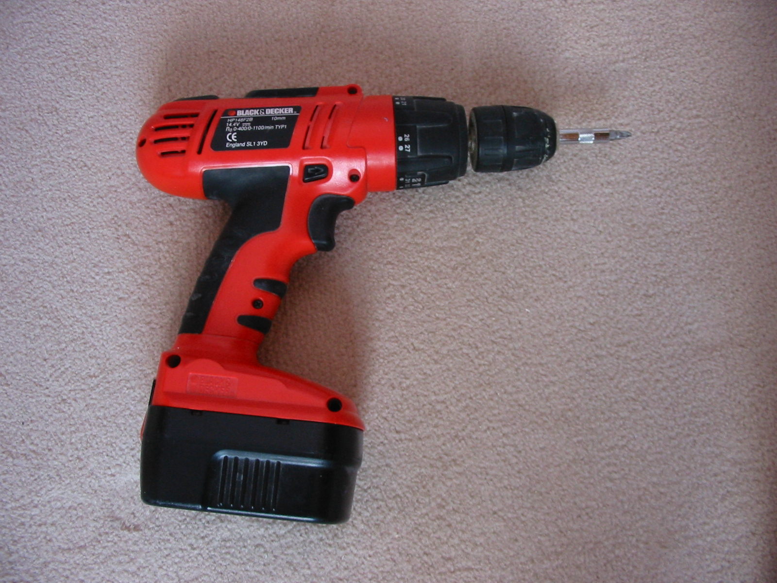 Black and Decker drill. Battery powered. Hammer action.